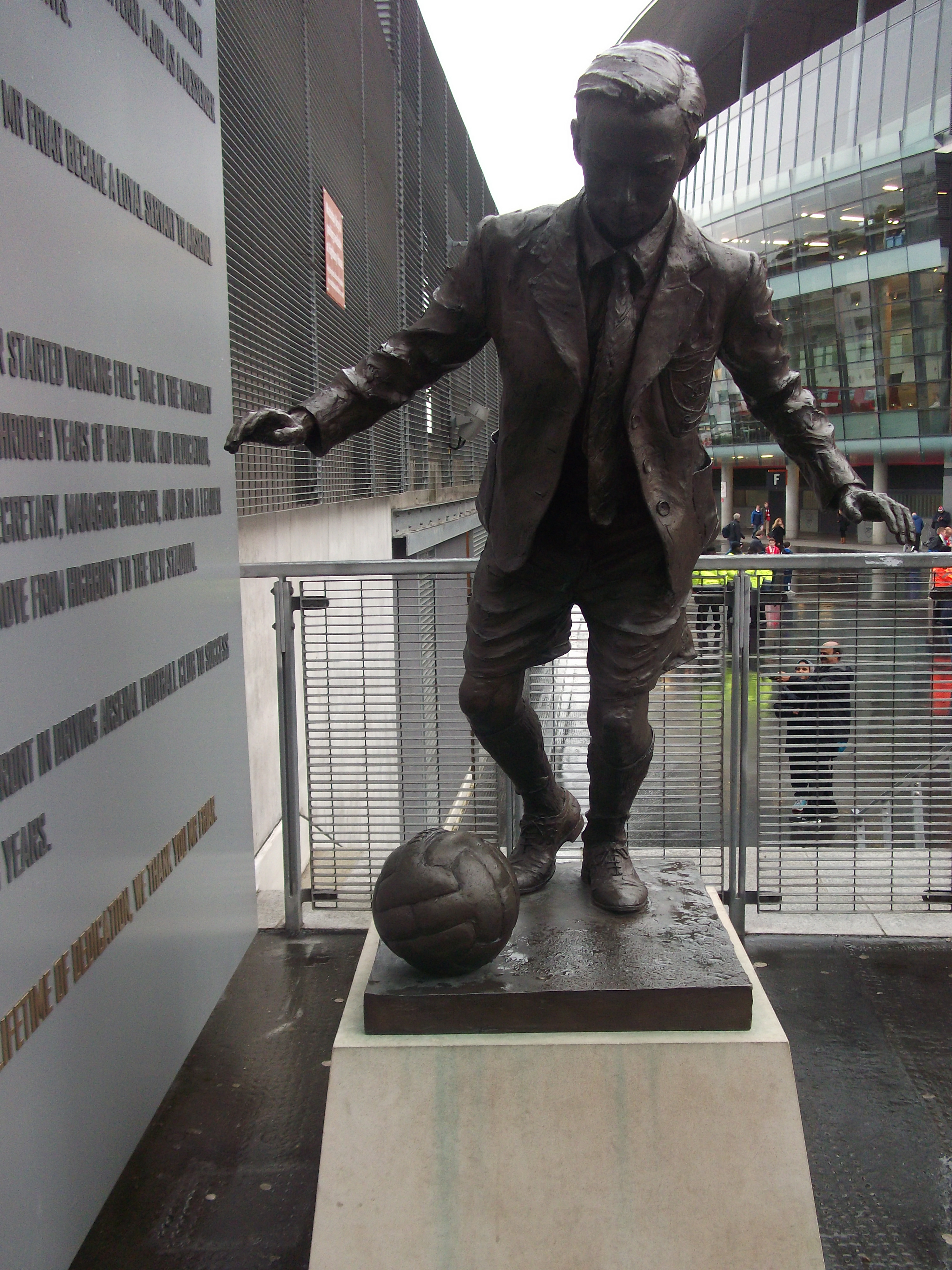 Arsenal FC v Everton FC, 24 Oct 2015